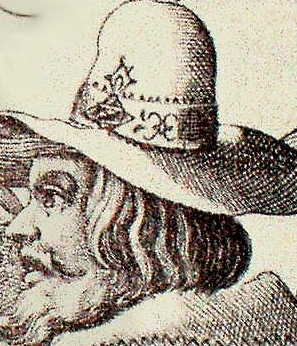 A contemporary sketch of the conspirators. The Dutchman who drew it probably never actually saw or met any of the conspirators, but it has become a popular representation nonetheless